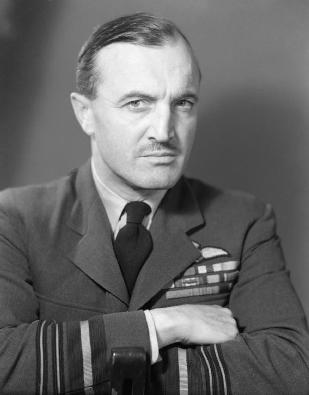 Air Marshal (later Marshal of the RAF) Sir John Slessor.